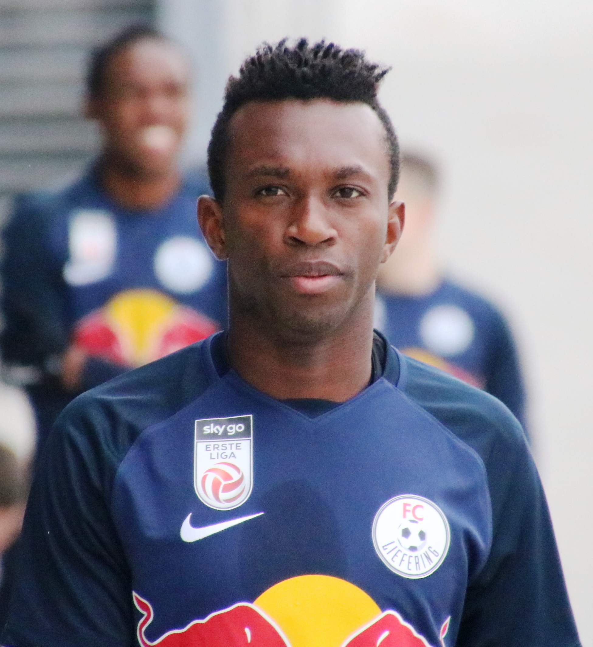 Pre season friendly match